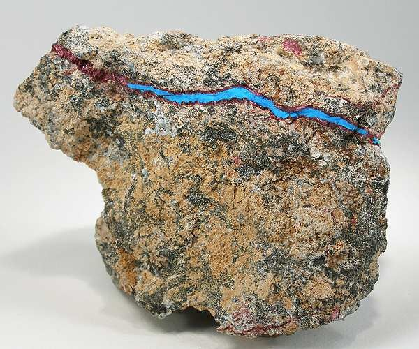 Lavendulan, Erythrite Locality: La Blanco Mine (Blanca Mine), Freirina, Huasco Province, Atacama Region, Chile (Locality at ) Size: 7.7 x 5.8 x 5.4 cm. This is an incredibly interesting specimen, with a history. The uncanny blue you see here in this thin seam is a little-known hydrous arsenate of copper (NaCaCu5(AsO4)4Cl•5(H2O) – a secondary mineral of copper and arsenate deposits. It is in combination here with erythrite, which surrounds the lavendulan and continues around the specimen as a seam; the lavendulan is basically sandwiched by the erythrite. Hey’s Mineral Index lists lavendulan from this locality as being described by one E. Goldsmith in 1877 at the Proceedings of the Academy of Natural Sciences in Philadelphia. Ex. Philadelphia Academy of Natural Sciences Collection.